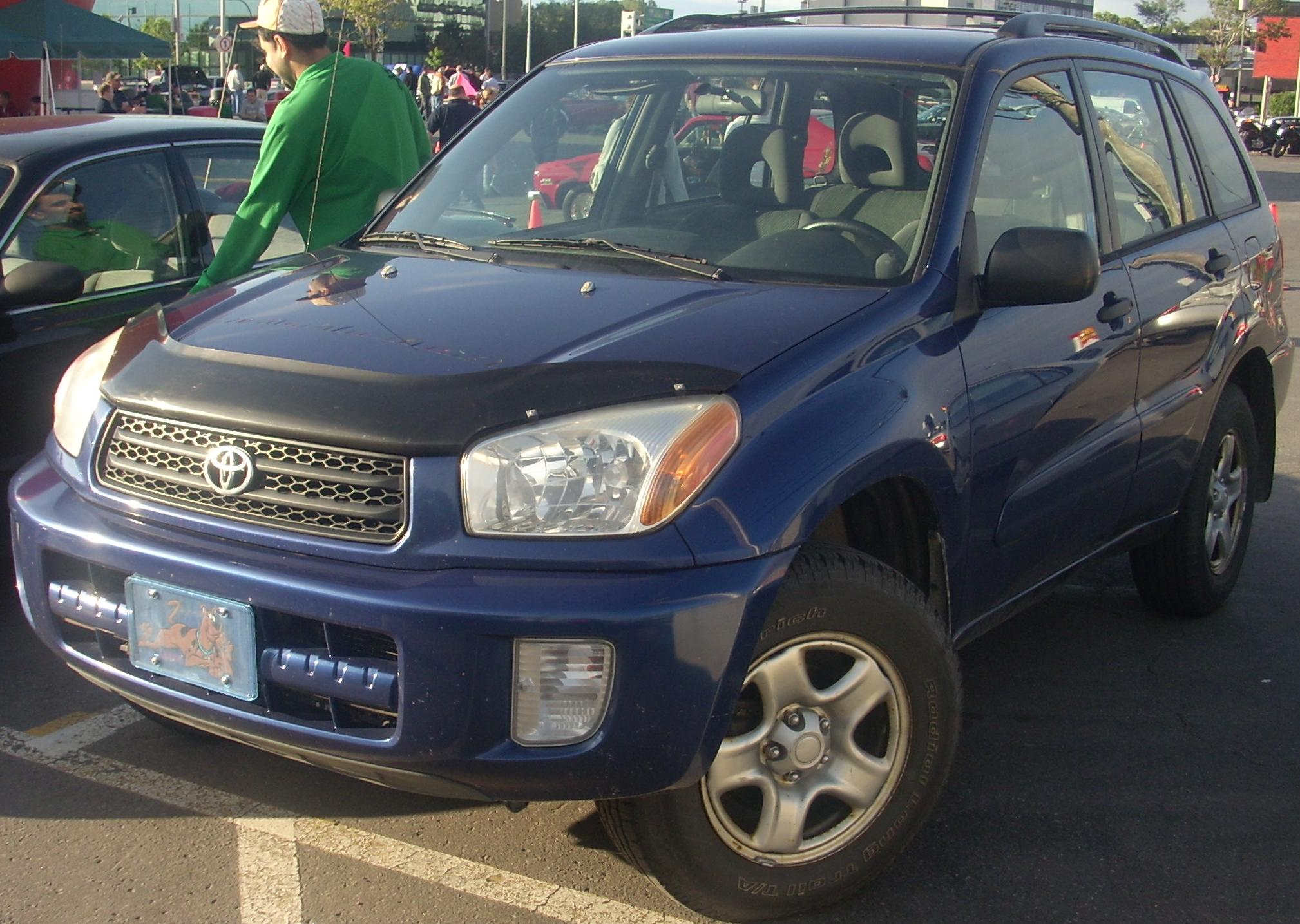 2001-2003 Toyota RAV4 photographed in Montreal, Quebec, Canada at the Gibeau Orange Julep.